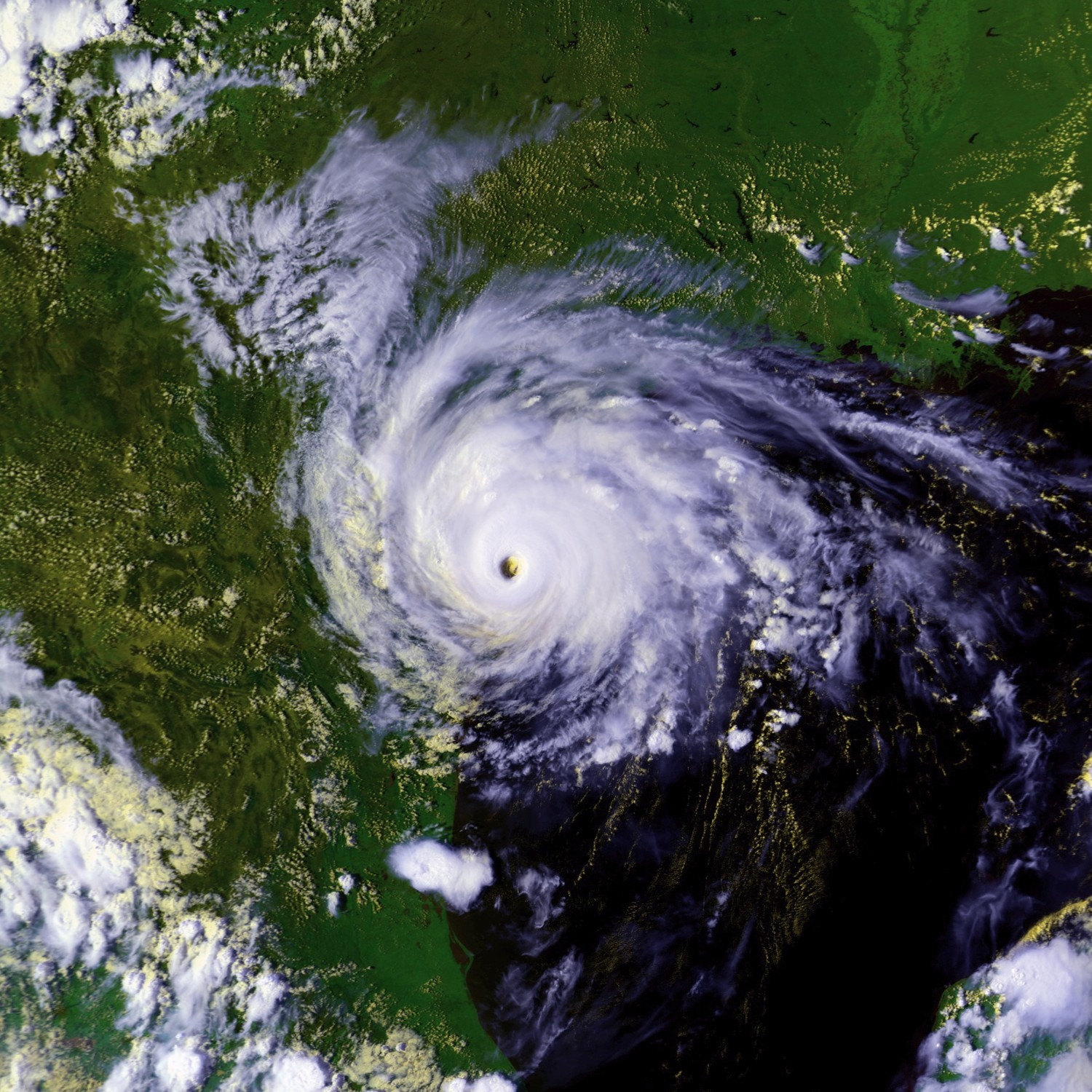 Hurricane Bret on August 22 at approximately 2130 UTC. This image was produced from data from NOAA-14, provided by NOAA.